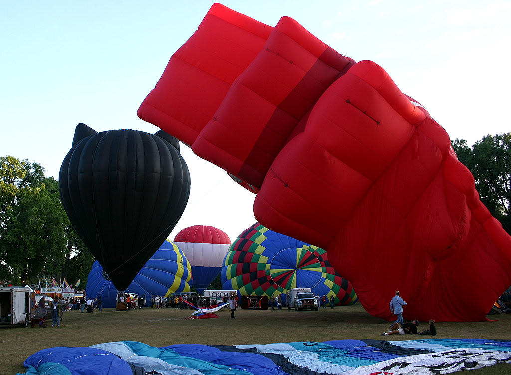 Hot-Air Balloons being inflated in preparation for takeoff. Harris Park, London, Ontario, Canada. Photograph by Duke, on July 30, 2005